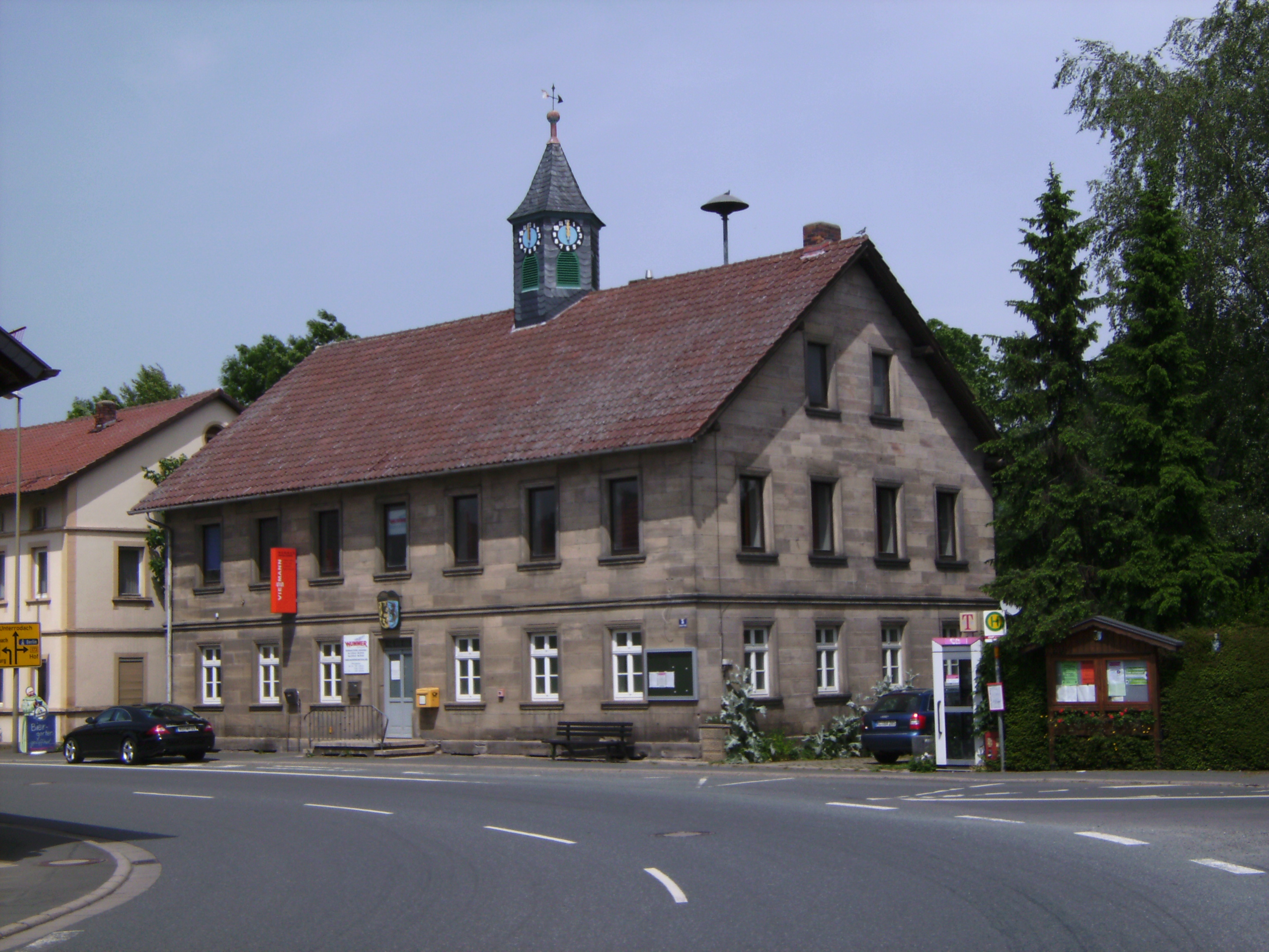 Oberrodach, monumental building